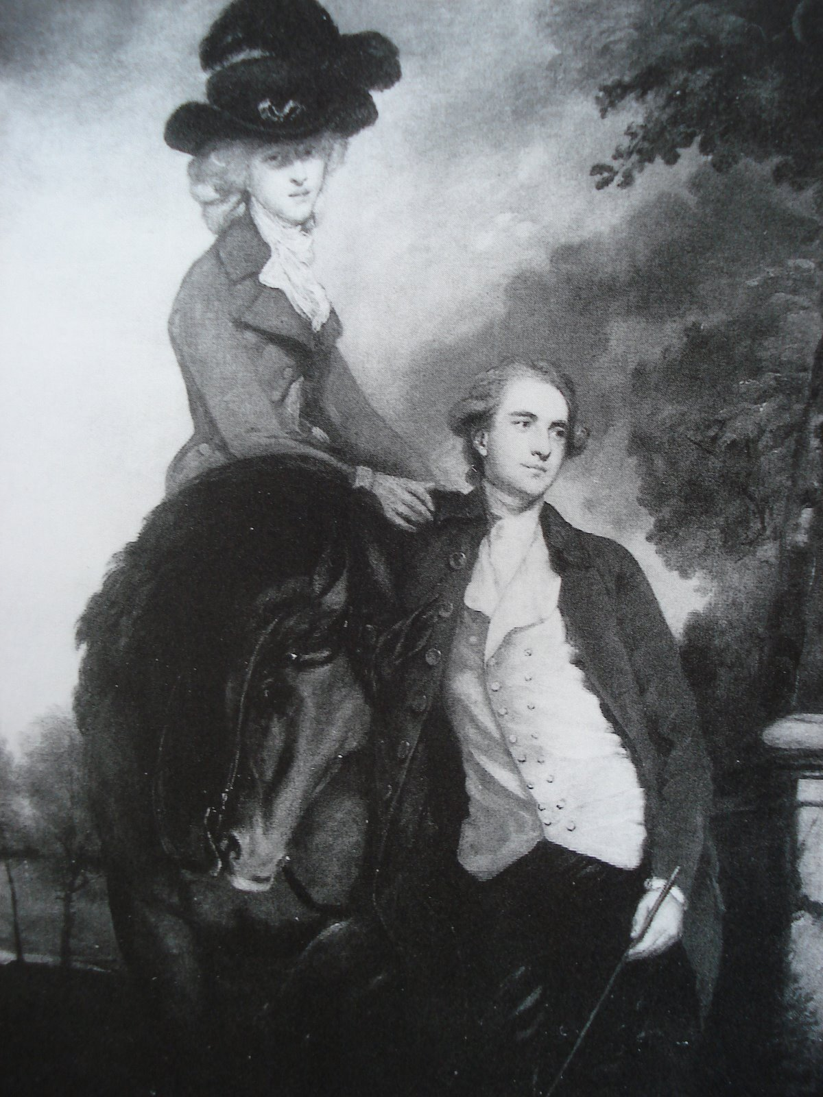 Portrait of Douglas, 8th Duke Hamilton and his wife Elizabeth, Duchess of Hamilton (née Burrell)